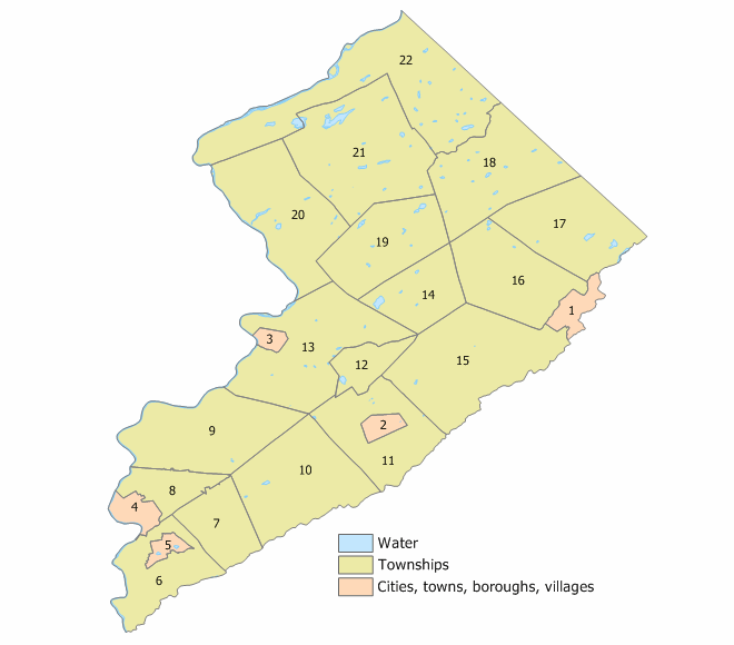 Locator map of places in Warren County, New Jersey. See also lineage of index maps.